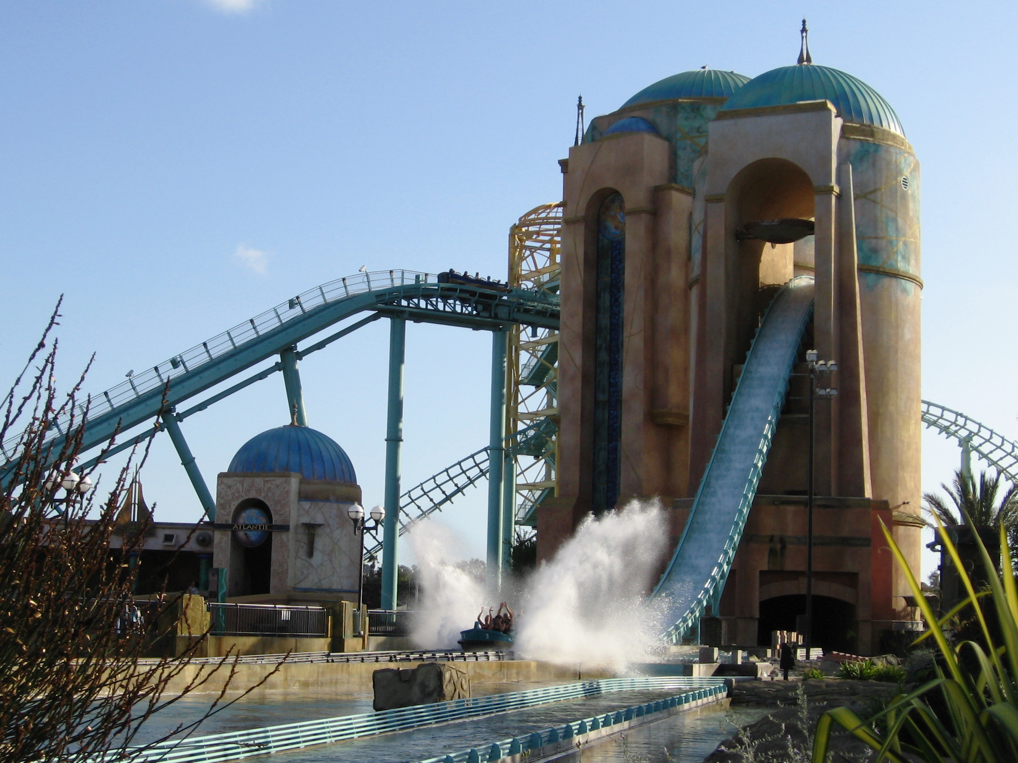 Journey to Atlantis attraction ride at Sea World in San Diego, California, USA.